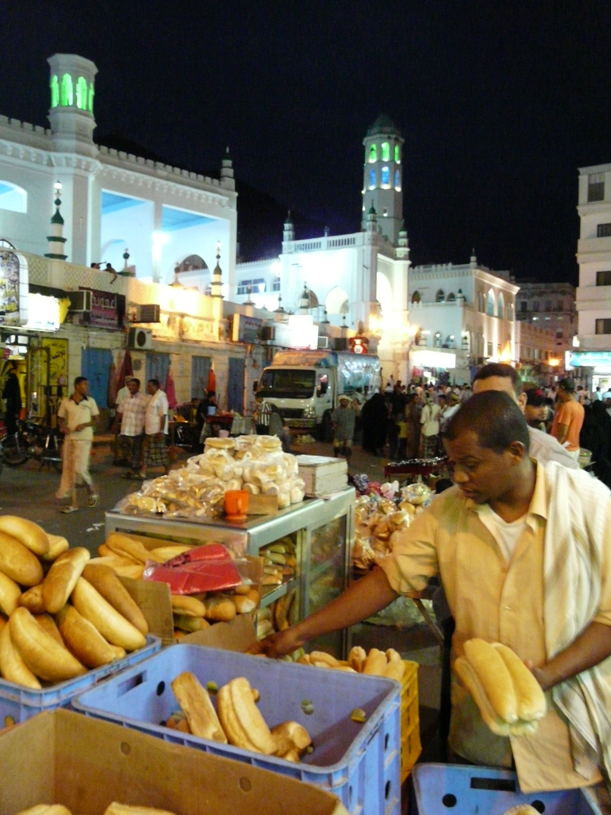 Yemen_Al Mukalla_Square in the Old City of Al Mukalla_Trading the bread late evening.